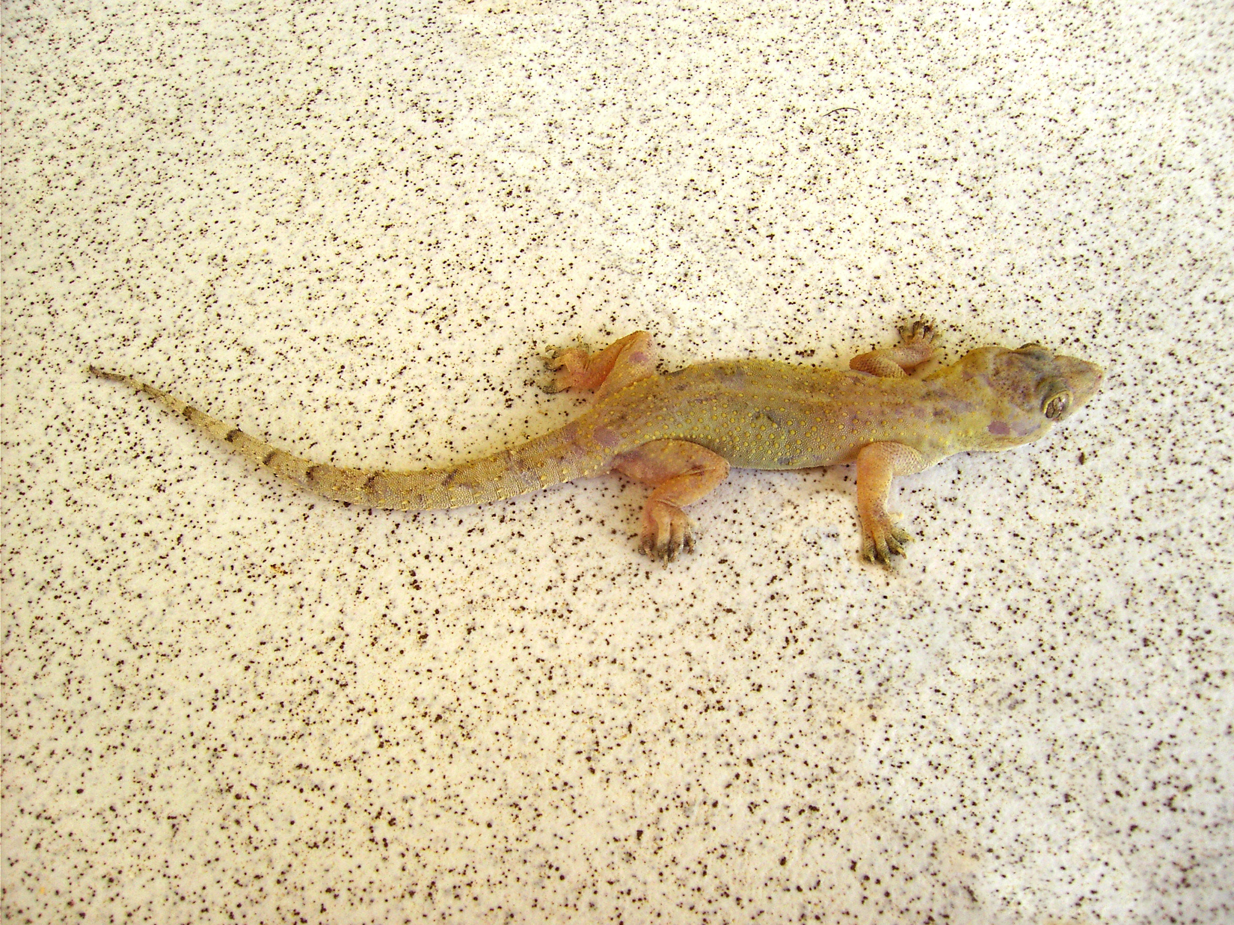 Tropical house gecko at Palm Tree House, Woodfordhill, Dominica, West Indies